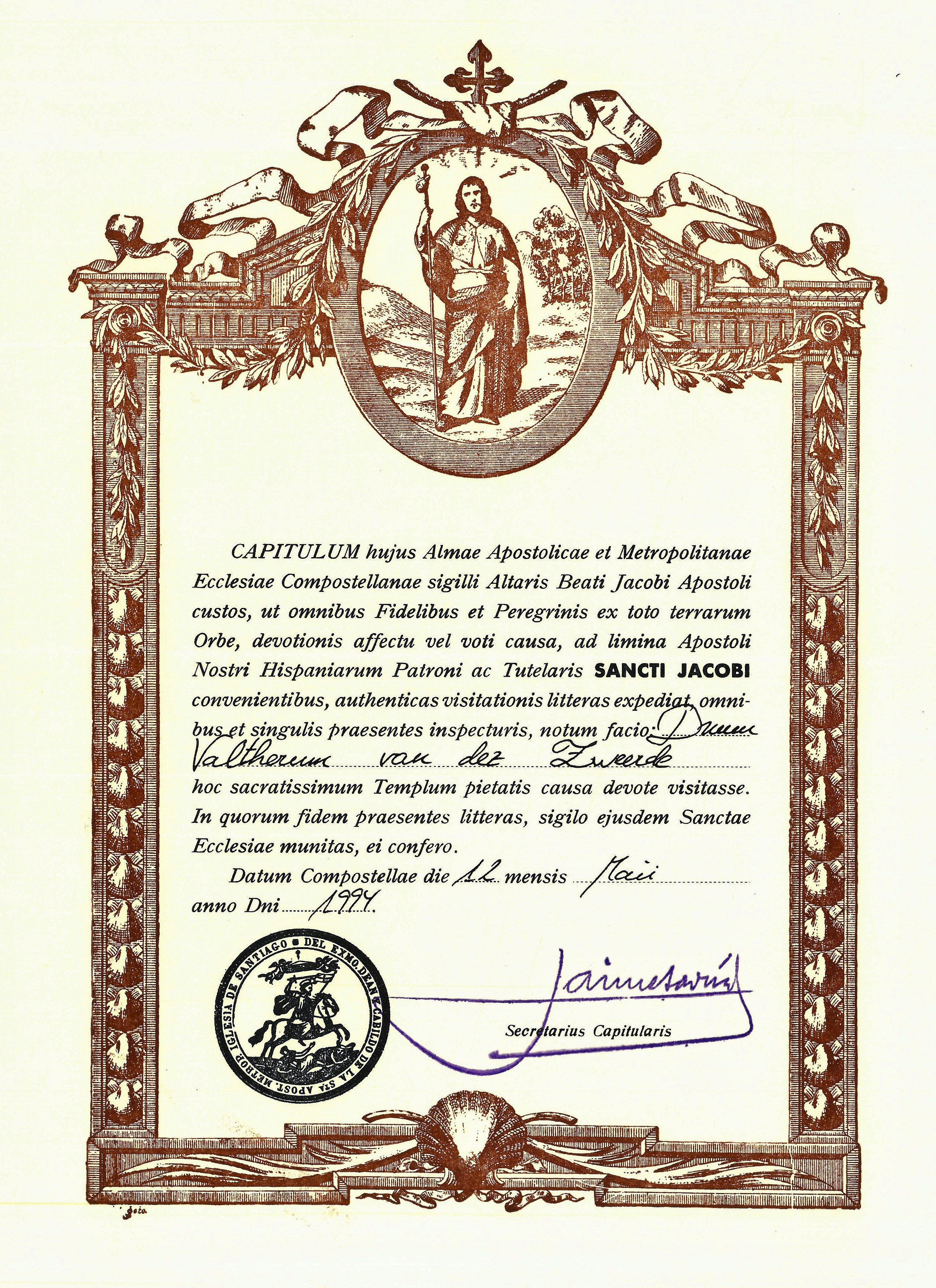 Compostella 2018